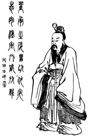 A Qing dynasty illustration of Fu Wan